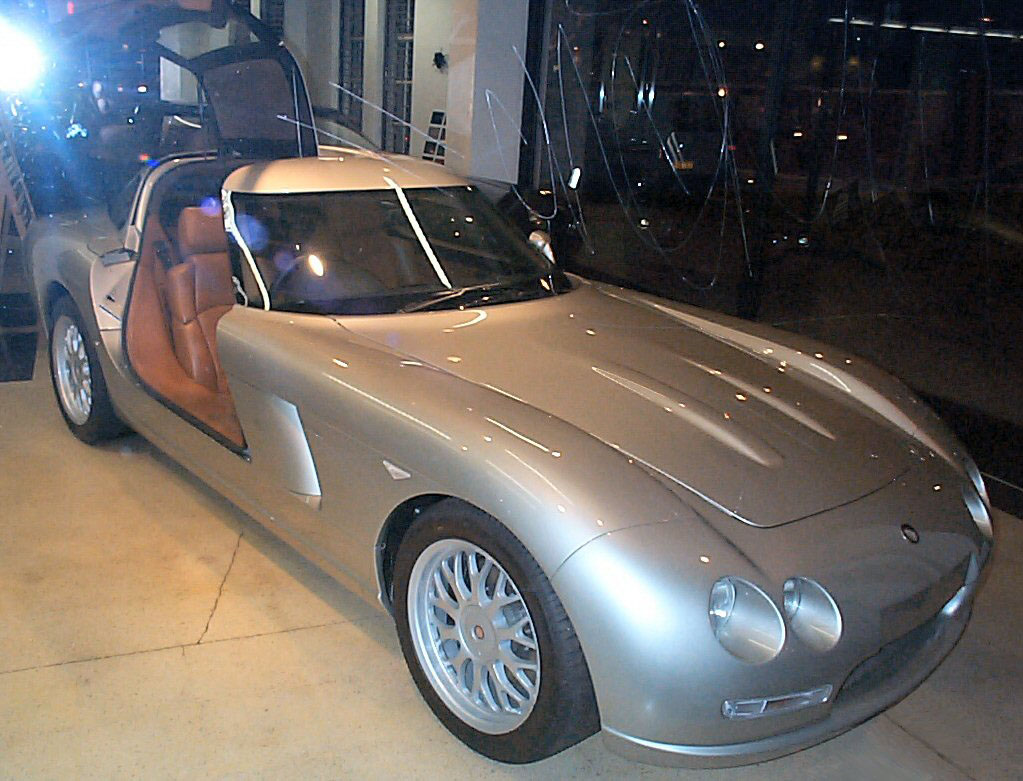 A 2004 Bristol Fighter